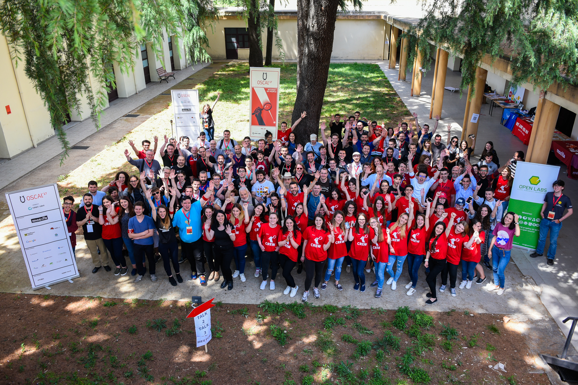 Group photo with almost all the participants of Open Source Conference Albania (OSCAL 2017). For more information about the event oscal.openlabs.cc.